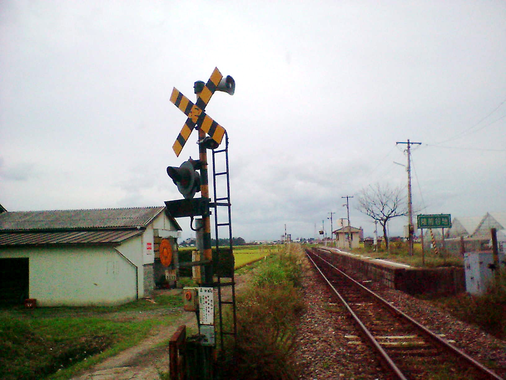 Along the tracks of Rikuzen-Yachi station. Westward.